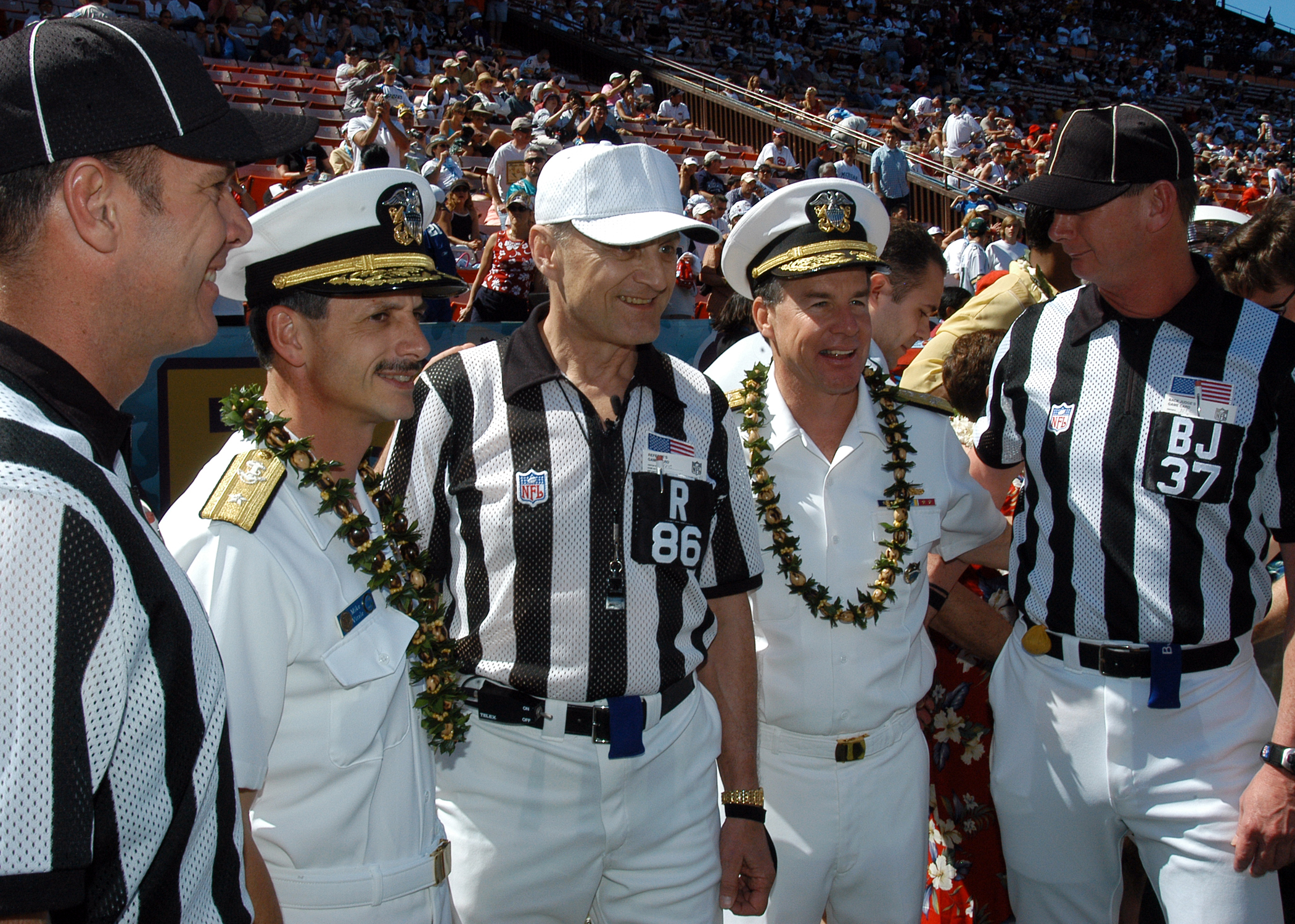 Commander, U.S. Pacific Command, Adm. Thomas Fargo, right, and Commander, Navy Region Hawaii, Rear. Adm. Michael C. Vitale pose for a photograph with NFL officials before the 2005 NFL Pro Bowl held in Honolulu, Hawaii. Fargo performed the coin toss to start the game, which also included joint service color guards, a Hawaii Air National Guard F-15 Eagle flyover and a salute to more than 60 Purple Heart recipients.